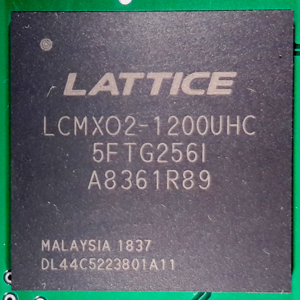 Lattice MachXO2 LCMXO2-1200UHC PLD